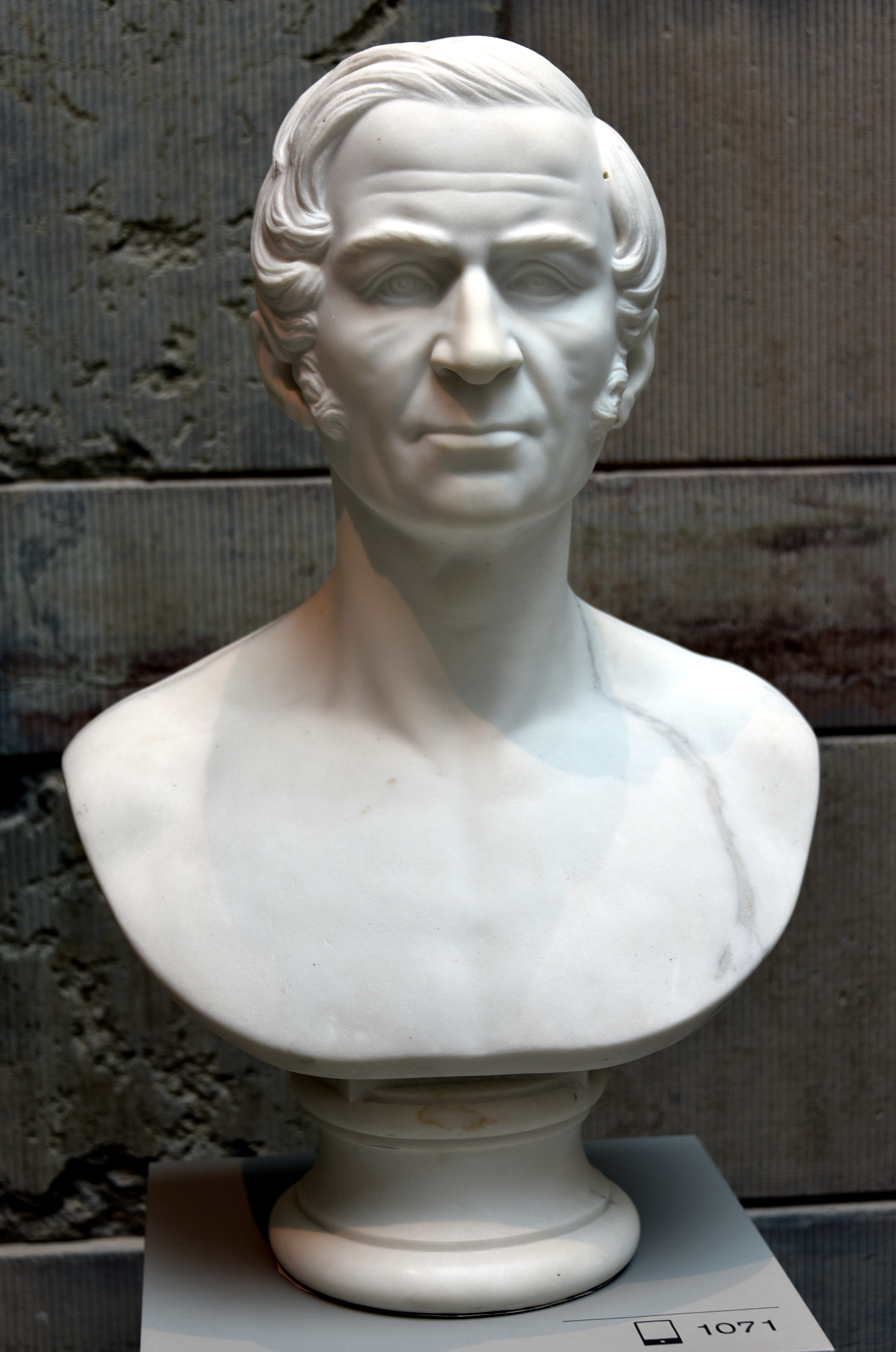 Torsten Rudenschöld by Carl Gustaf Qvarnström (1810-1867). Marble. Nationalmuseum, Stockholm, Sweden. Gift 1899 estate of director Hjalmar Petré. NMSk 892.